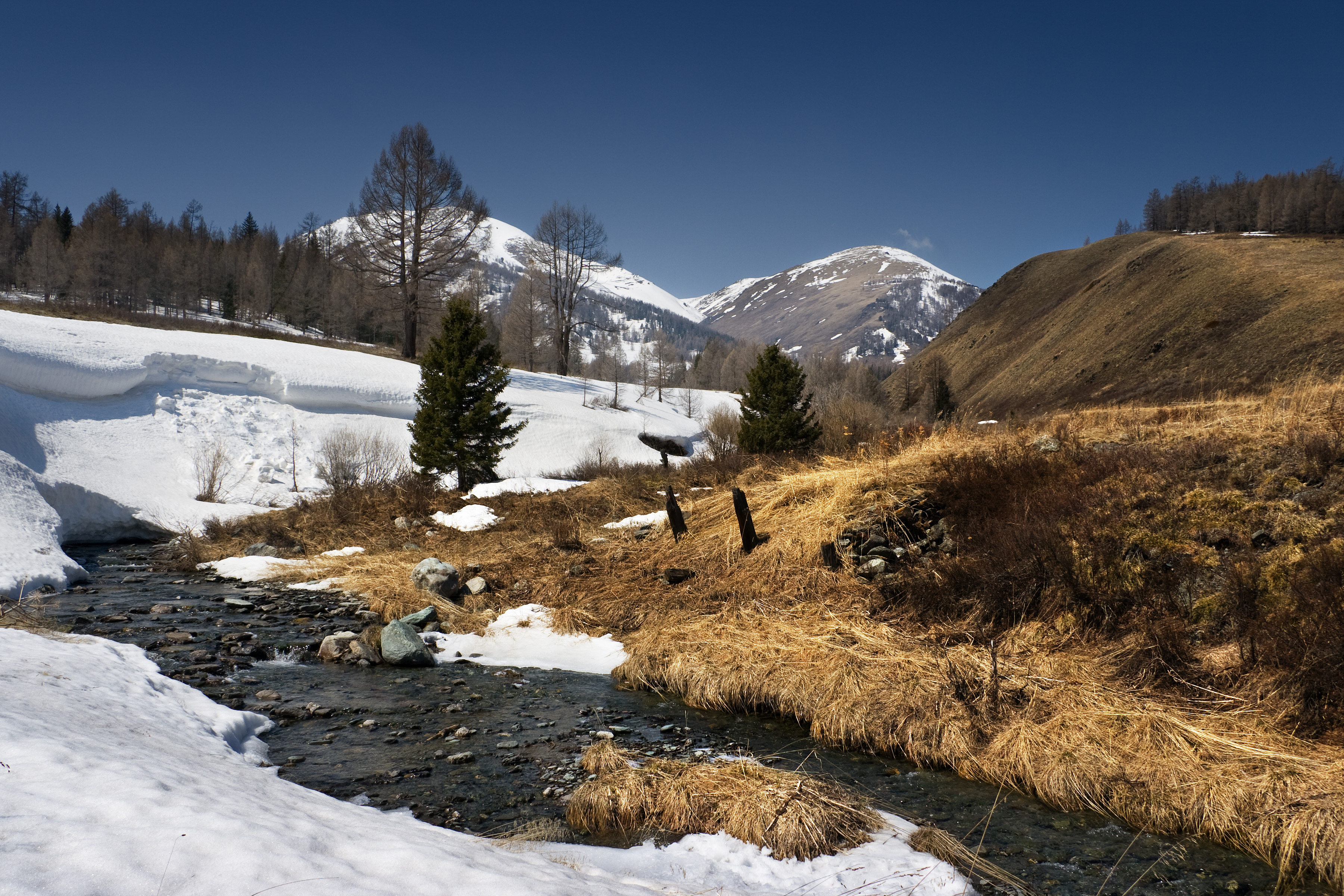 Altay mountains, Kazakhstan Markakol reserve, Kara-Koba river